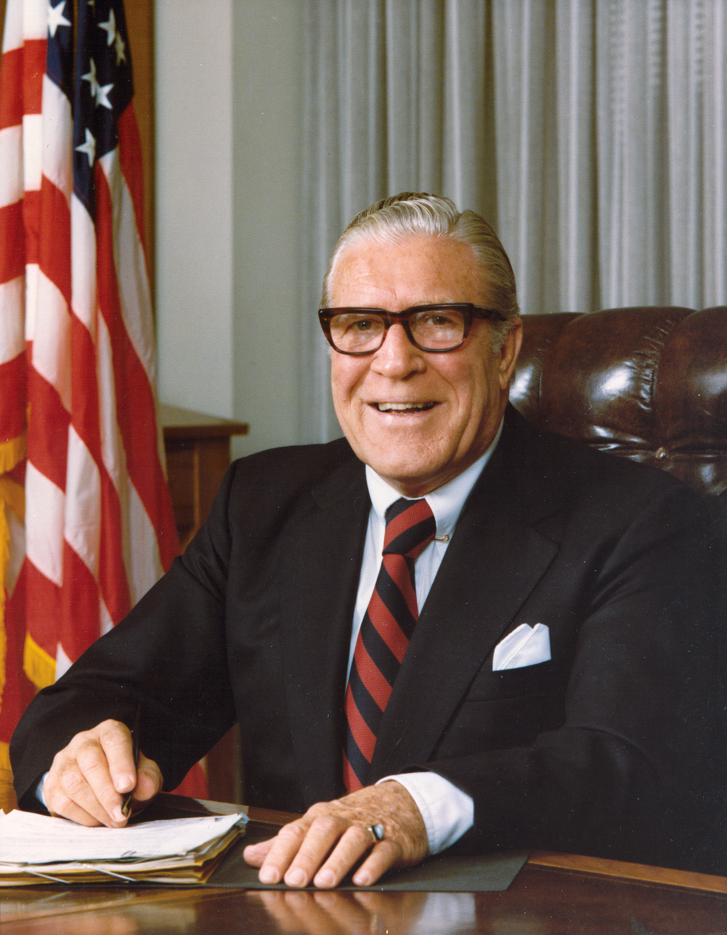 Photograph of Clarence M. Kelley.